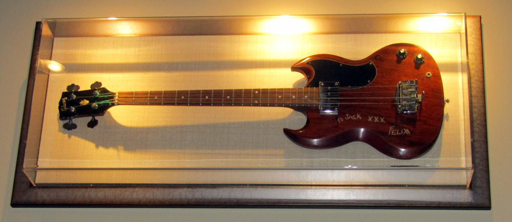 Jack Bruce's 1967 Gibson EB-0 bass guitar displayed on the wall at the Hard Rock Cafe in Pittsburgh, Pennsylvania, on September 3, 2016. The plaque on the wall under the bass contains the following information: "This 1967 Gibson EB-0 was given to Cream bassist Jack Bruce by producer/bassist Felix Pappalardi. Felix was the bass player for Mountain and produced Disraeli Gears, Wheels of Fire, and Goodbye for Cream." On the bass, below the strings, is the following inscription: "To Jack XXX Felix".